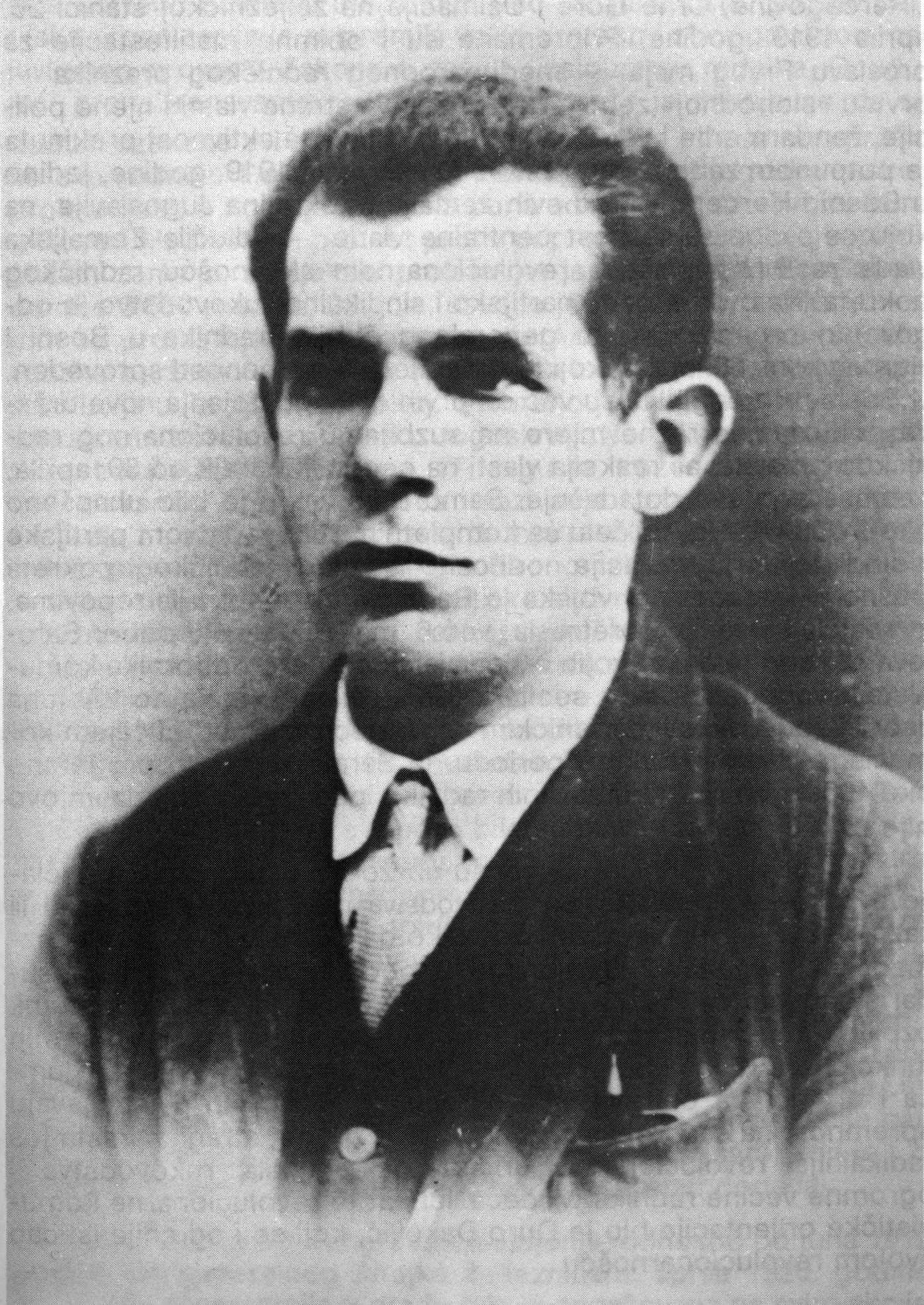 Bosnian-Herzegovinian Croat communist Đuro Đaković